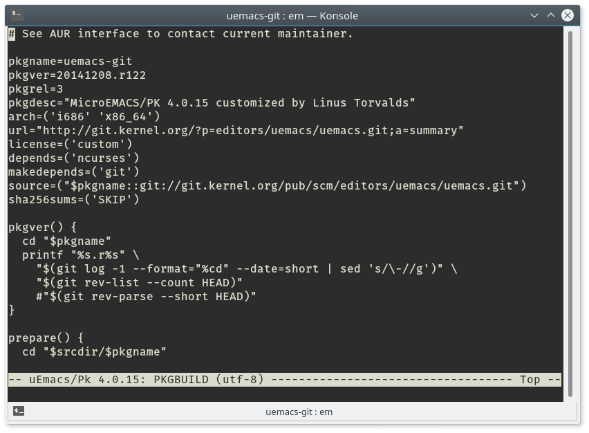 uEmacs/Pk 4.0.15 running on Linux in Konsole with its Arch Linux PKGBUILD loaded